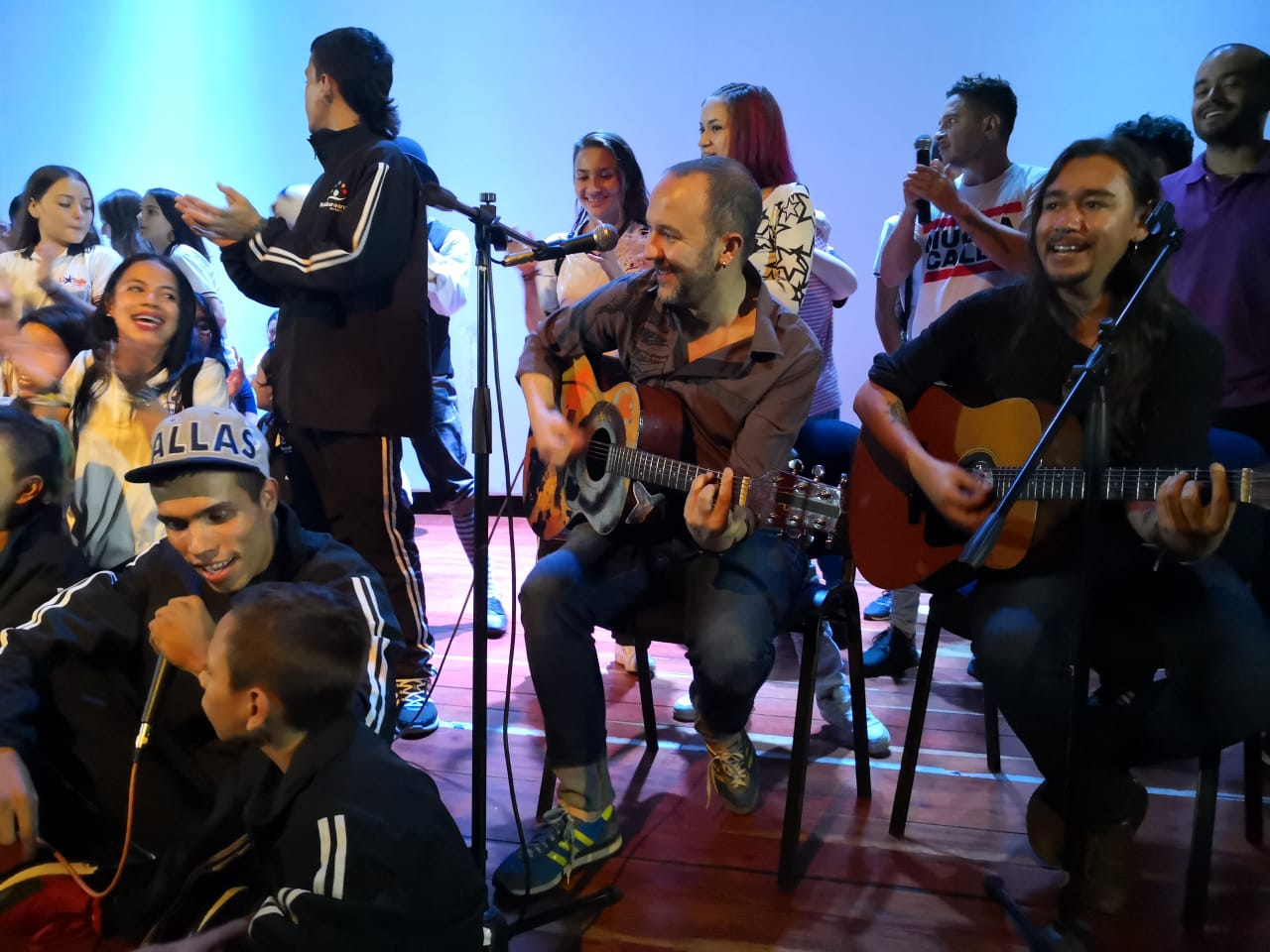 Cesar López con La Casa de los Sueños